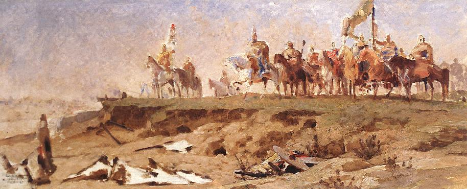 Conquest (first sketch)